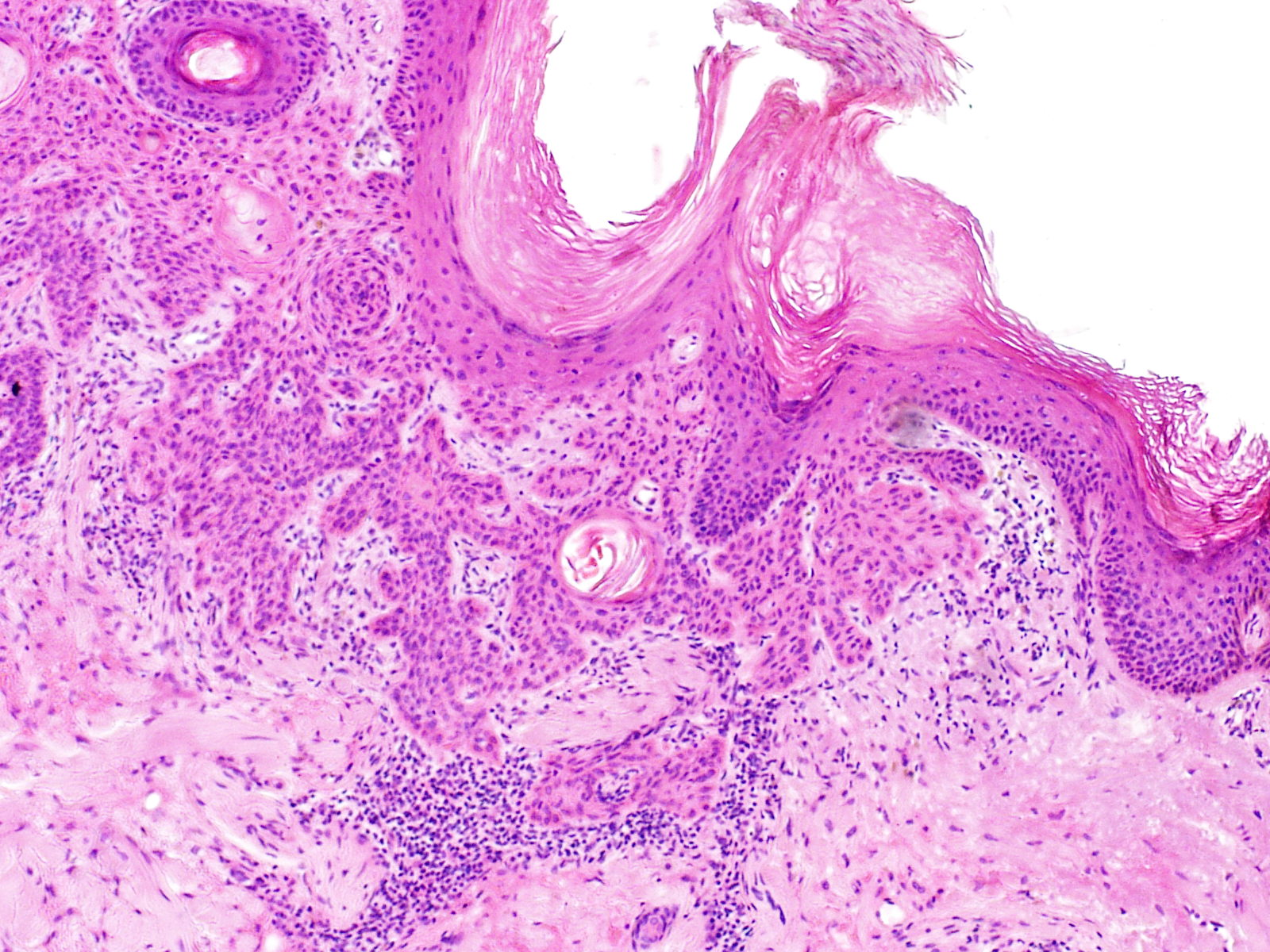 Actinic (solar) keratosis (magn. 4×)